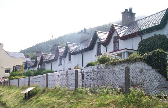 Widows' Row This is a terrace of twelve small houses built by public subscription to house the widows and orphans of 46 fishermen lost in the storm of Friday 13th January 1842.